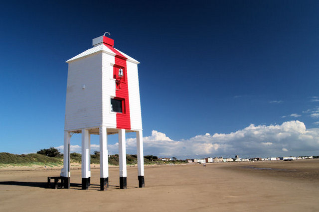 Have you seen a lighthouse like this?